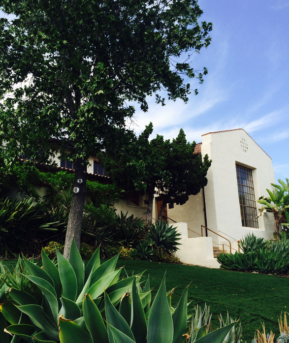 Recent Front exterior view